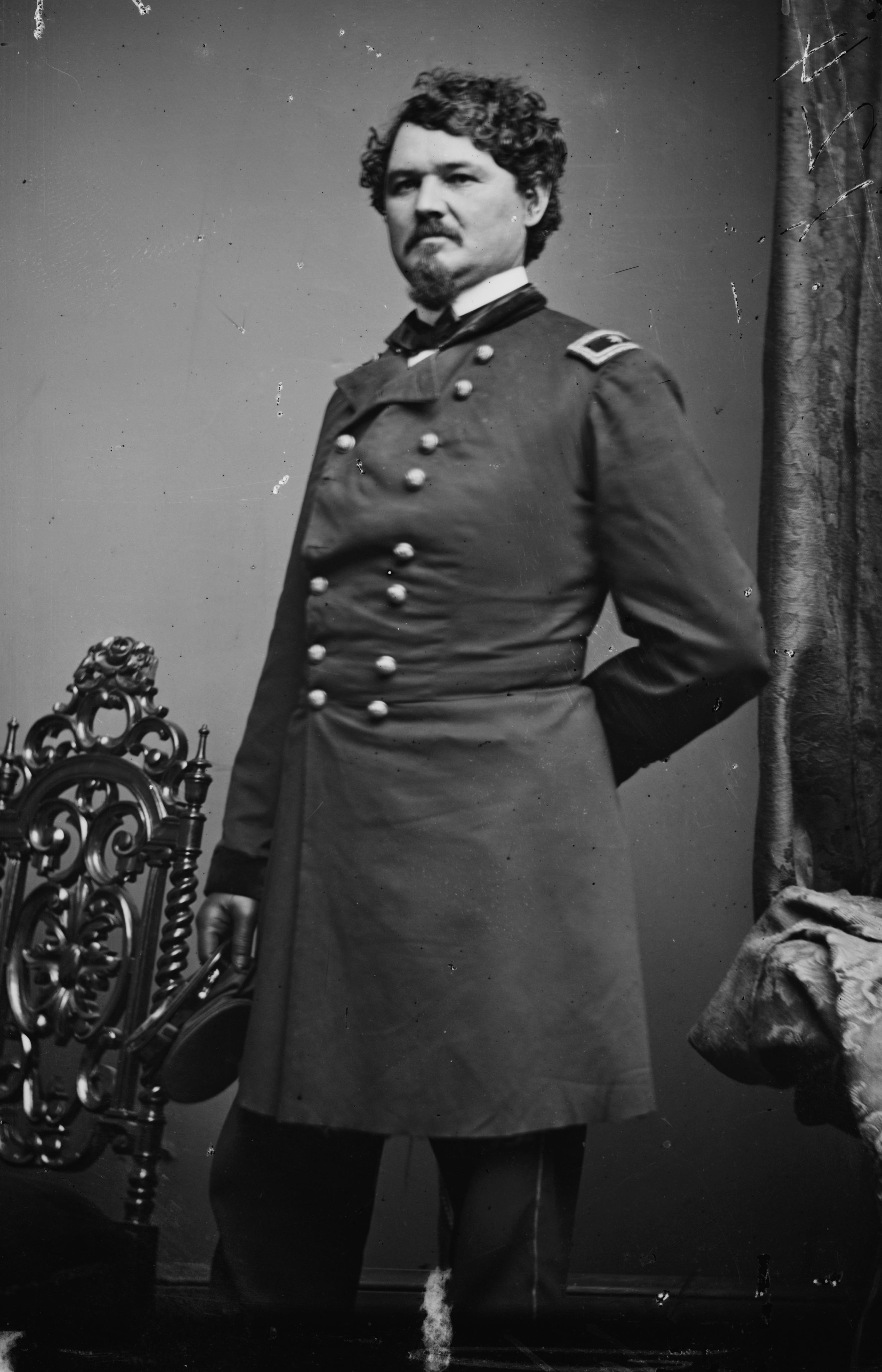 Samuel D. Sturgis. Library of Congress description: "Gen. S. D. Sturgis, U.S.A."